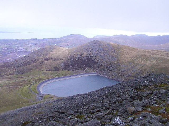 Marchlyn Mawr from Elidir Fawr. Showing the Lake present in that square, and the scree slopes to the foreground. The Dam is in another square.